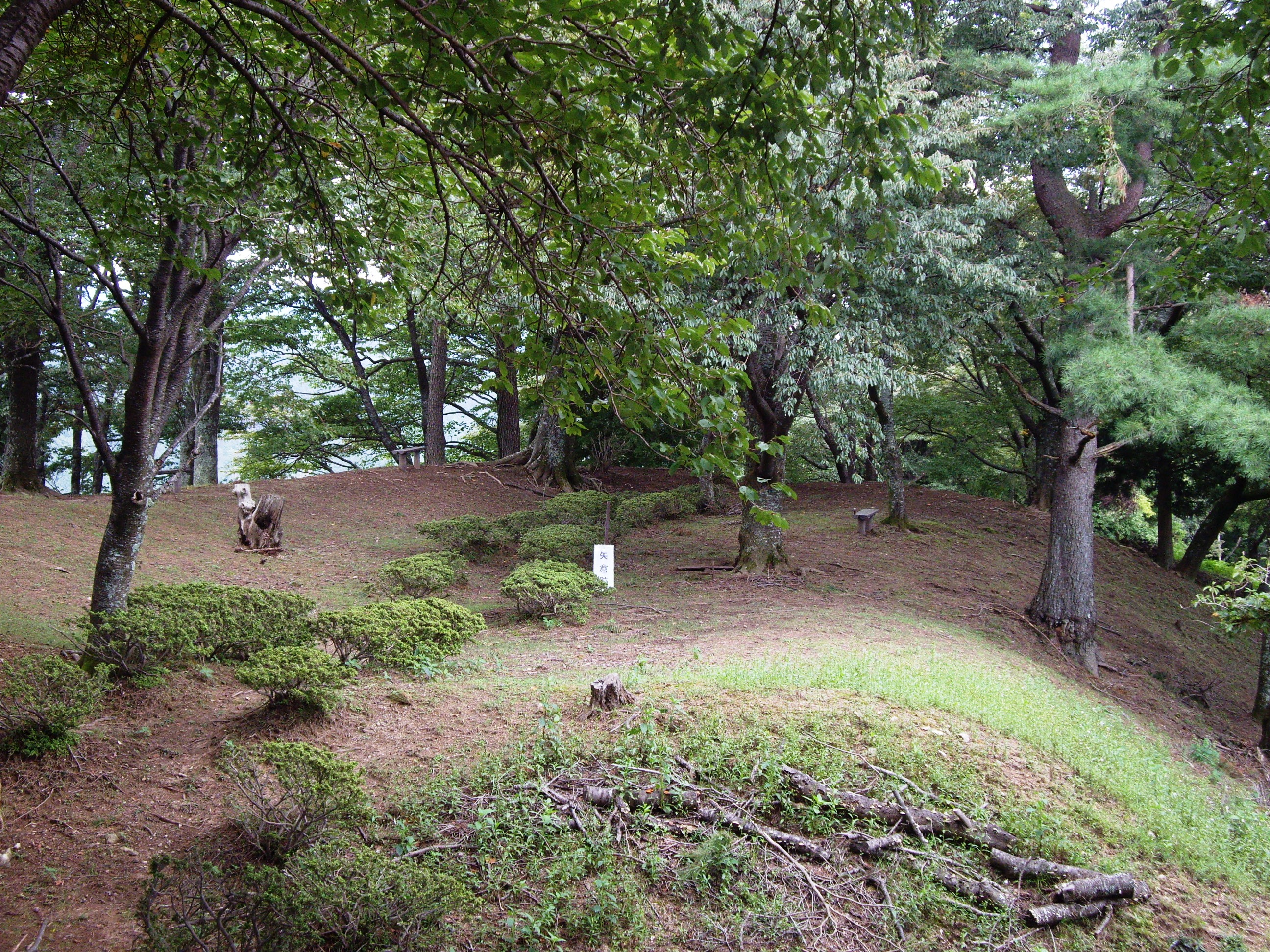 The ruins of Kiriyama Castle, in Tsu, Mie Prefecture, Japan